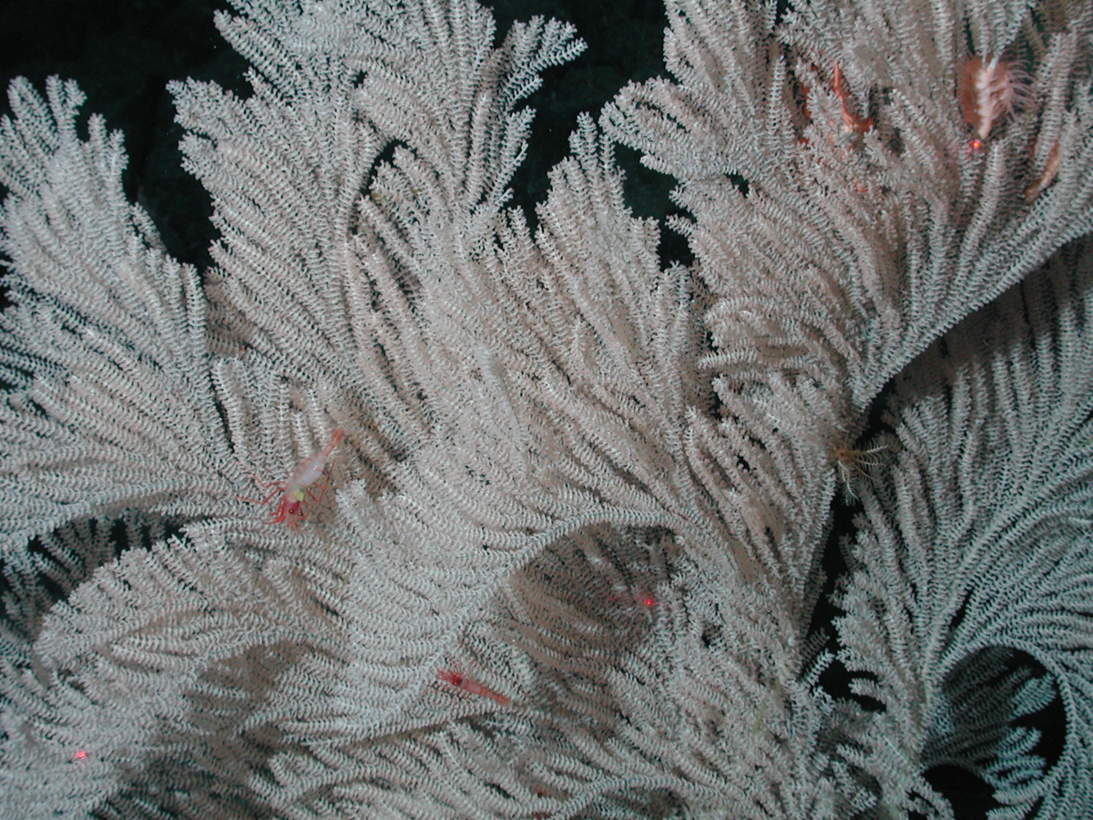 Close-up of primnoid coral (Calyptrophora sp.) and shrimp on the Davidson Seamount at 1570 meters depth. Credit: NOAA/MBARi 2002